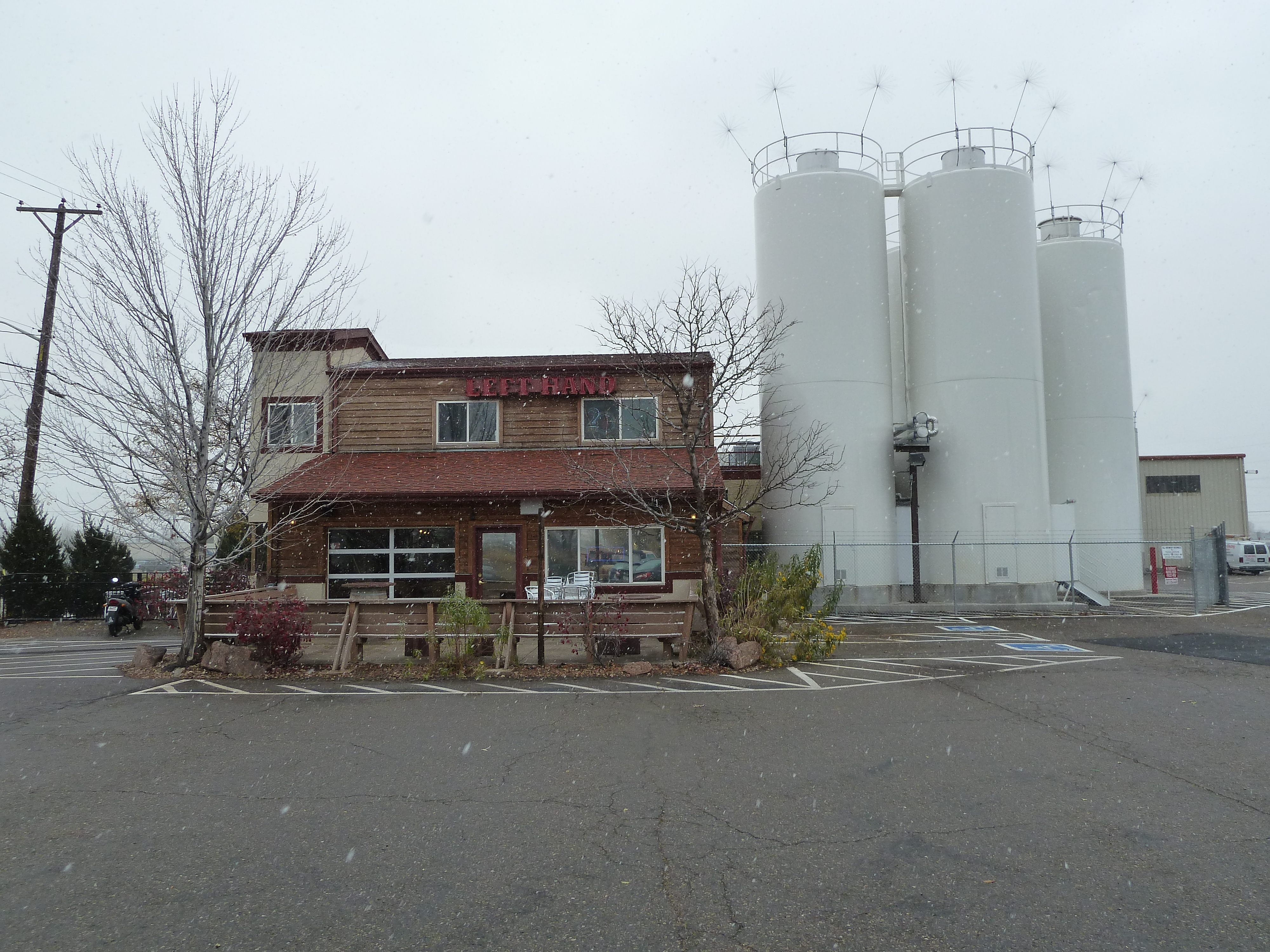 Exterior shot.